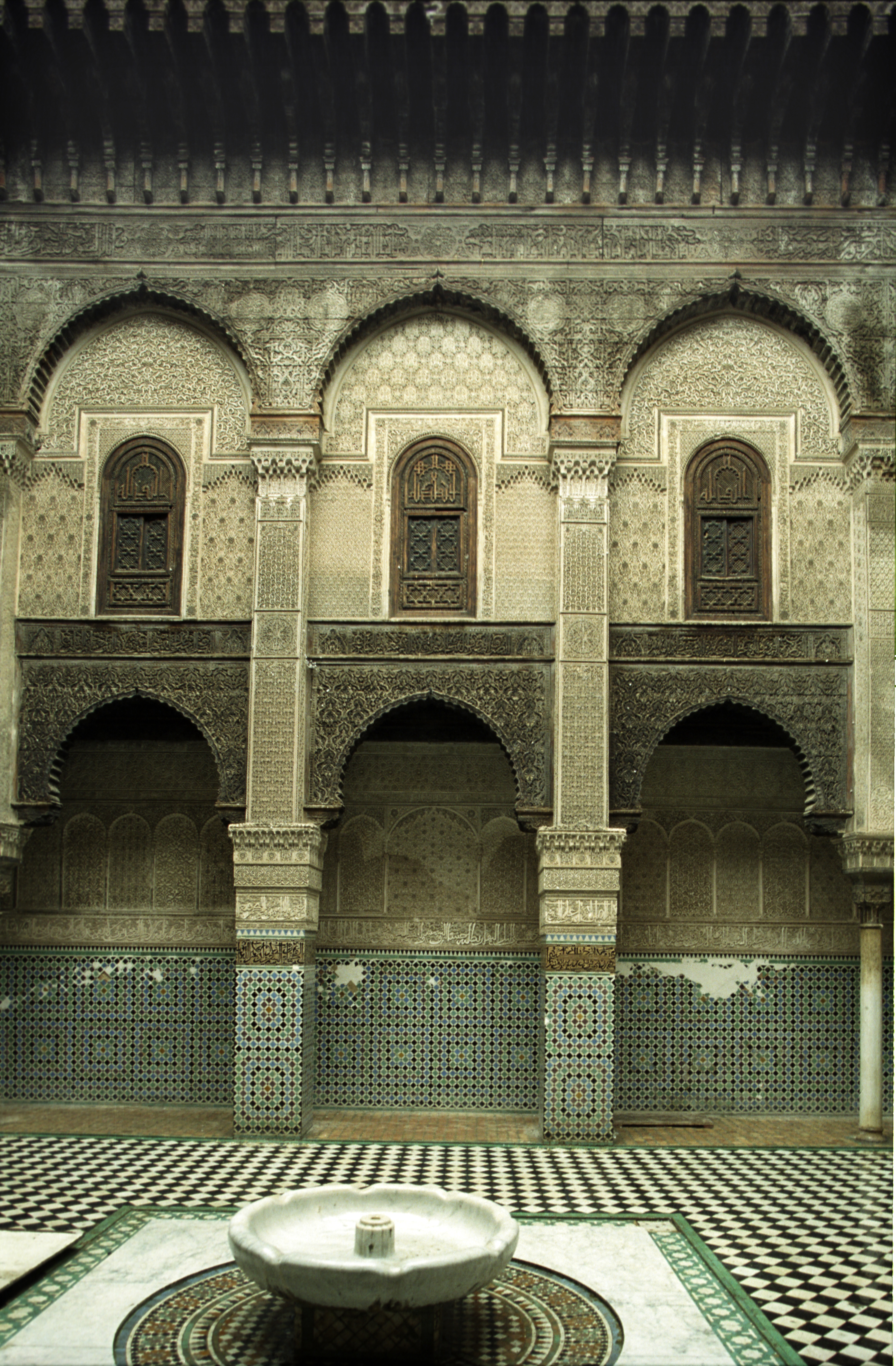 Medresa Al-Attarin